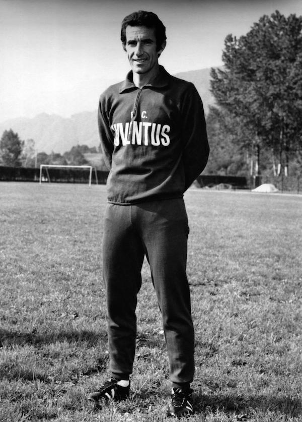 Italian football coach Armando Picchi with Juventus F.C. in the 1970–71 season.